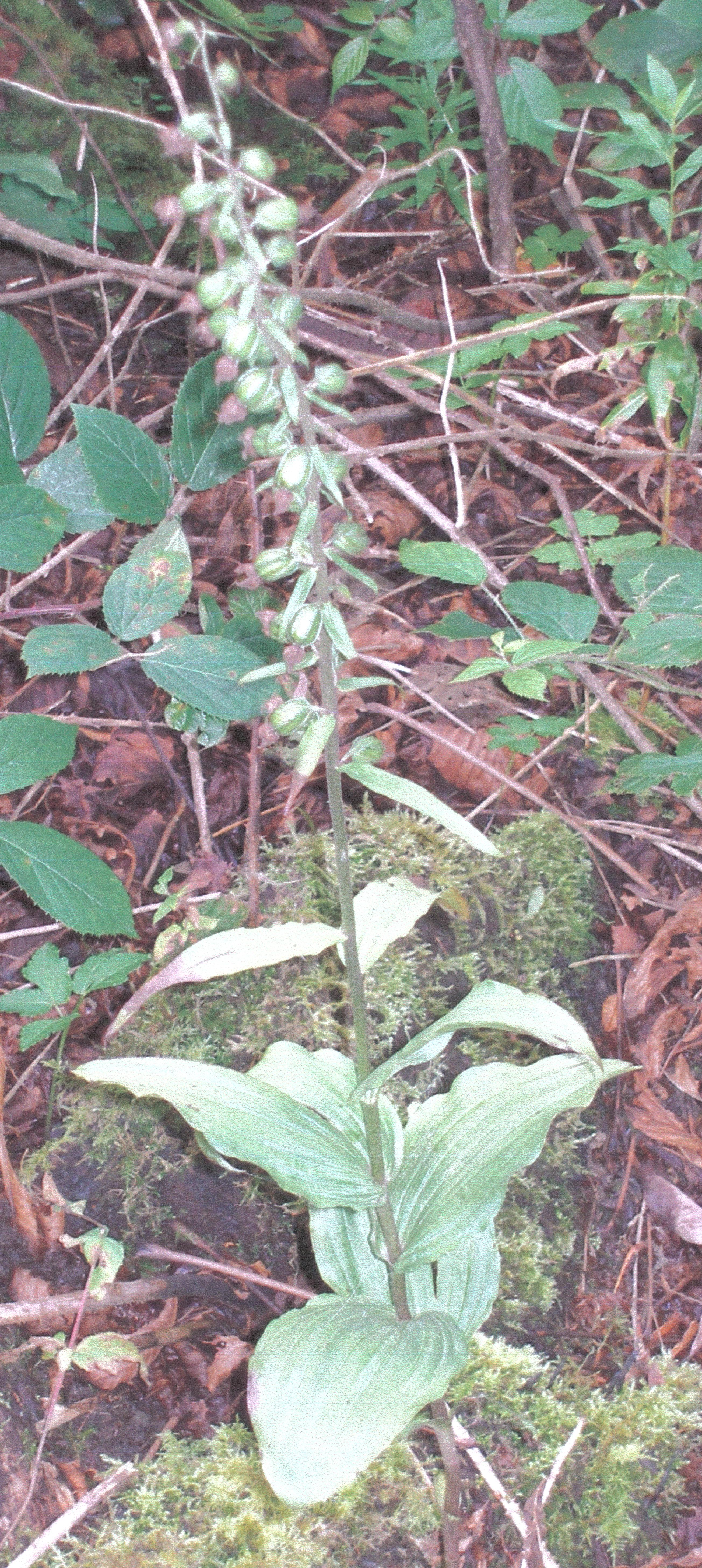 Epipactis helleborine (Broad Leaved Helleborine), Speir's School, Beith, North Aryshire, Scotland.